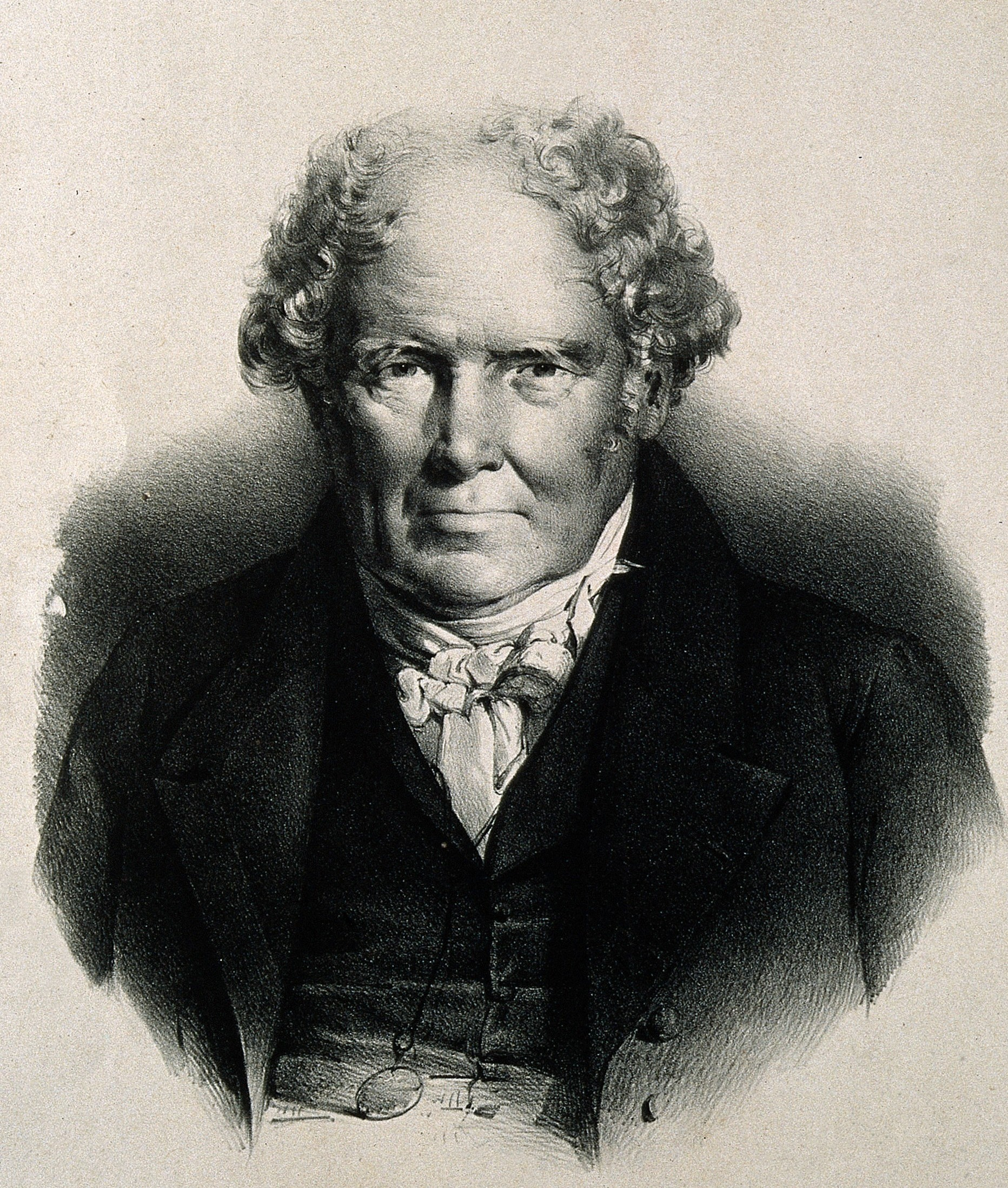 Scottish physician Alexander Monro (tertius). From the University of Otago Library Monro collection.